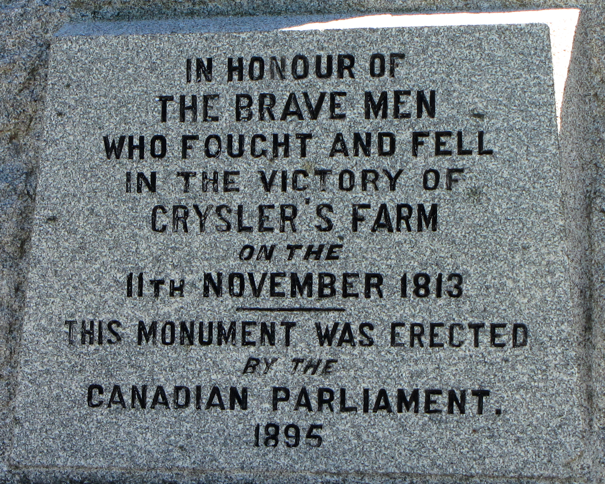 Memorial to Battle of Crysler's Farm, engraving, erected 1895, near Upper Canada Village, Ontario, Canada